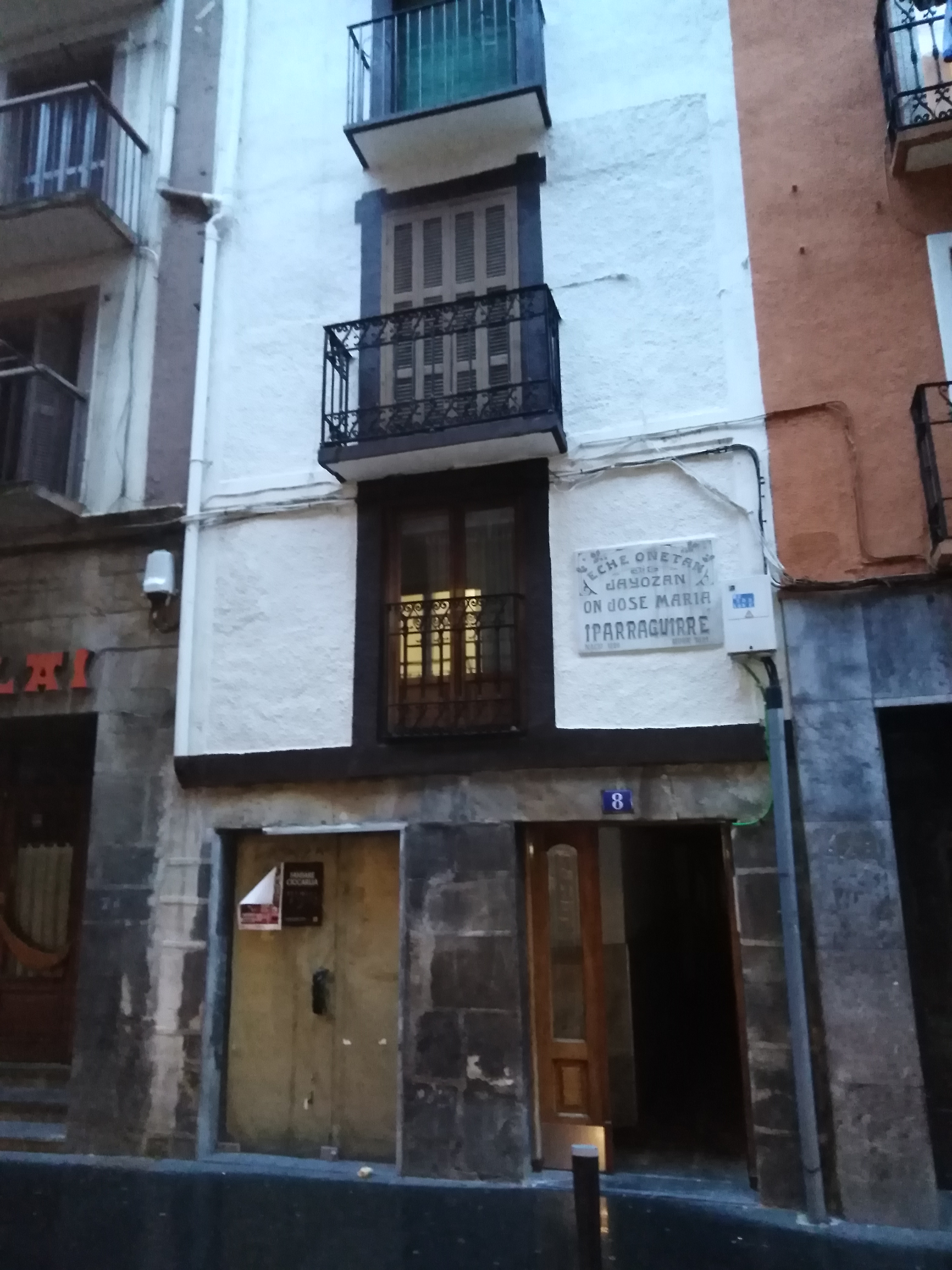 Altzola house. Birthplace of Jose Mari Iparragirre Balerdi (1820-1881), Urretxu. Gipuzkoa, Basque Country.